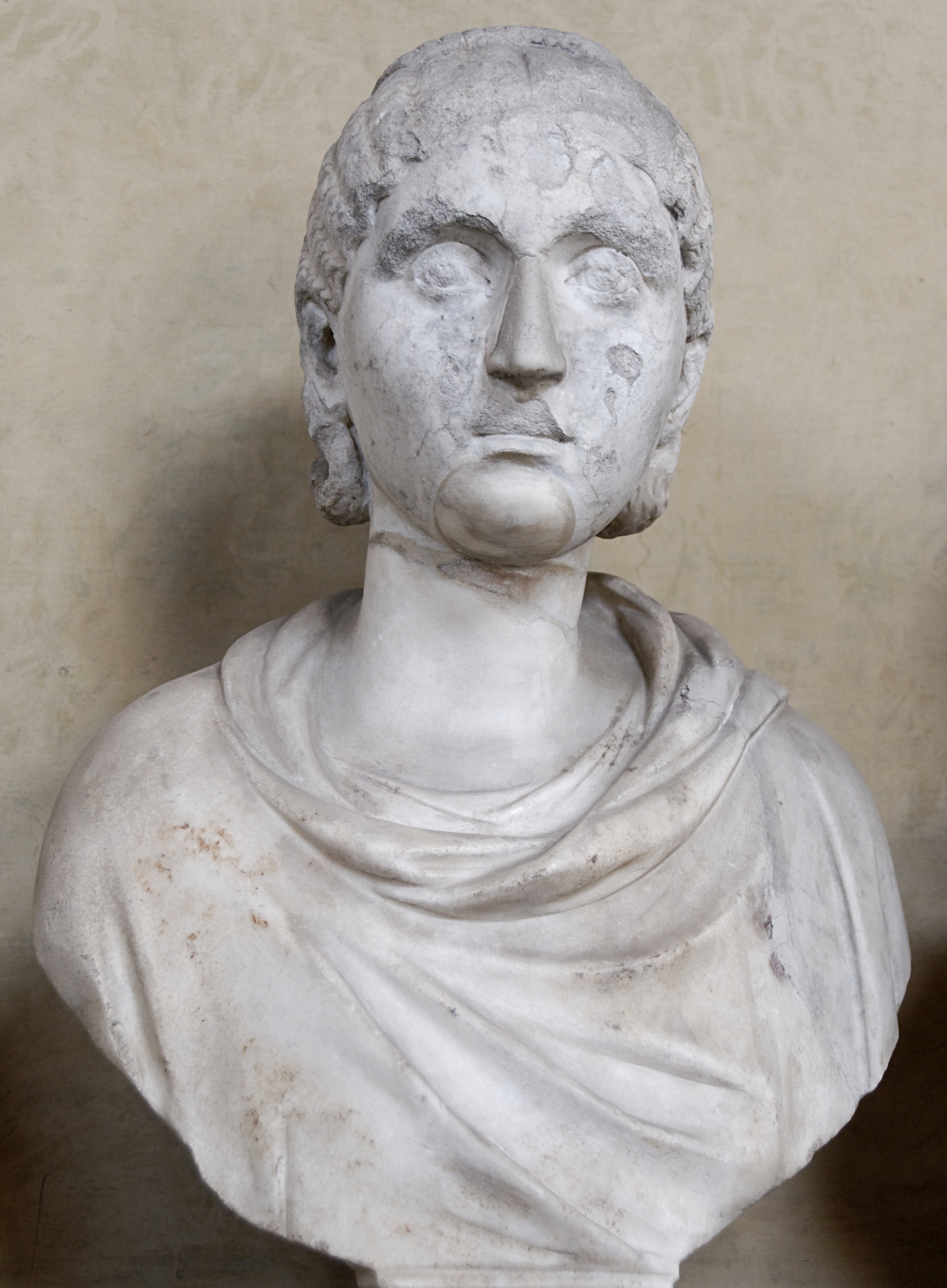 Tranquillina, wife of Gordian III. Marble, Roman artwork, 241–246 AD; the mid 2nd century AD bust does not belong to the head.